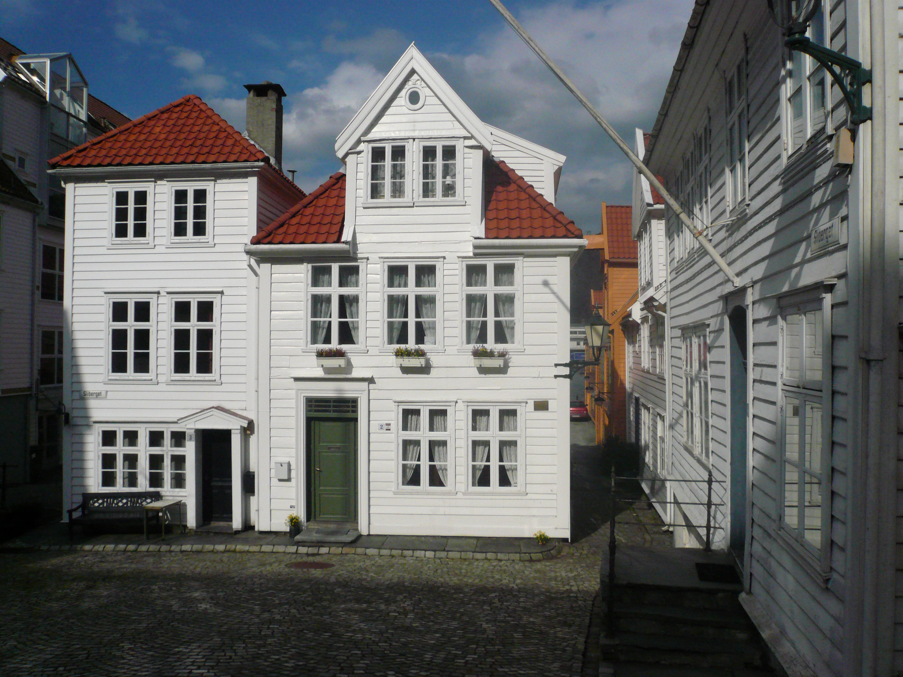 Sliberget 3 (left) and 2 (right), Bergen, Norway